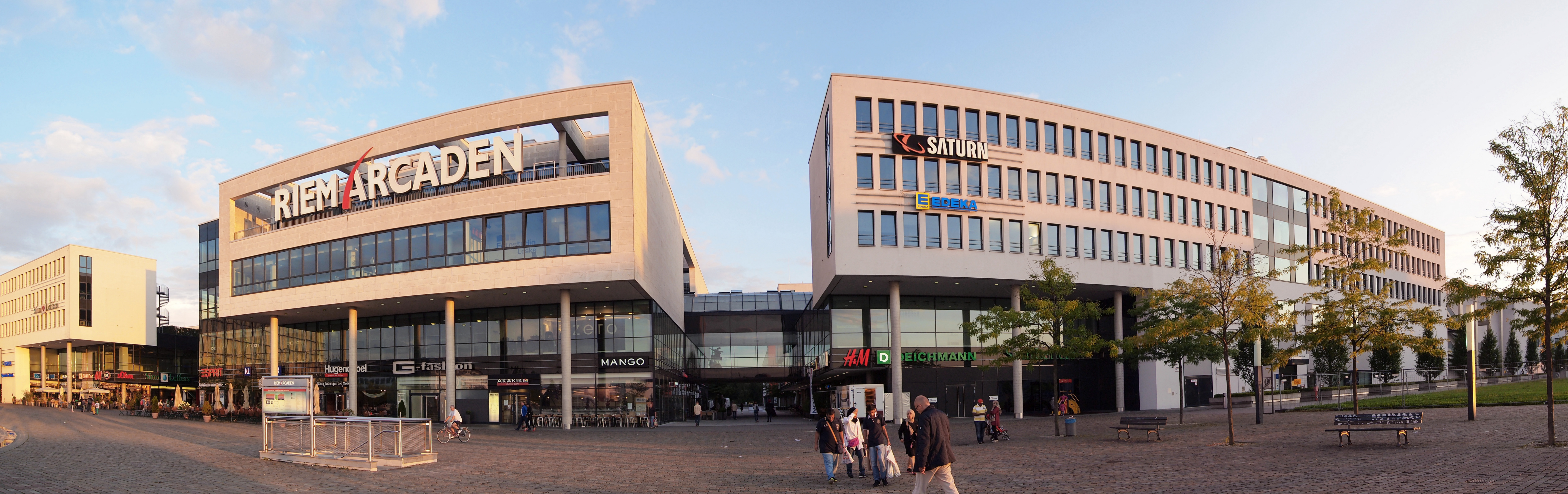 Riem Arcaden shopping mall in Munich. This photograph was taken with a Olympus E-PL1.